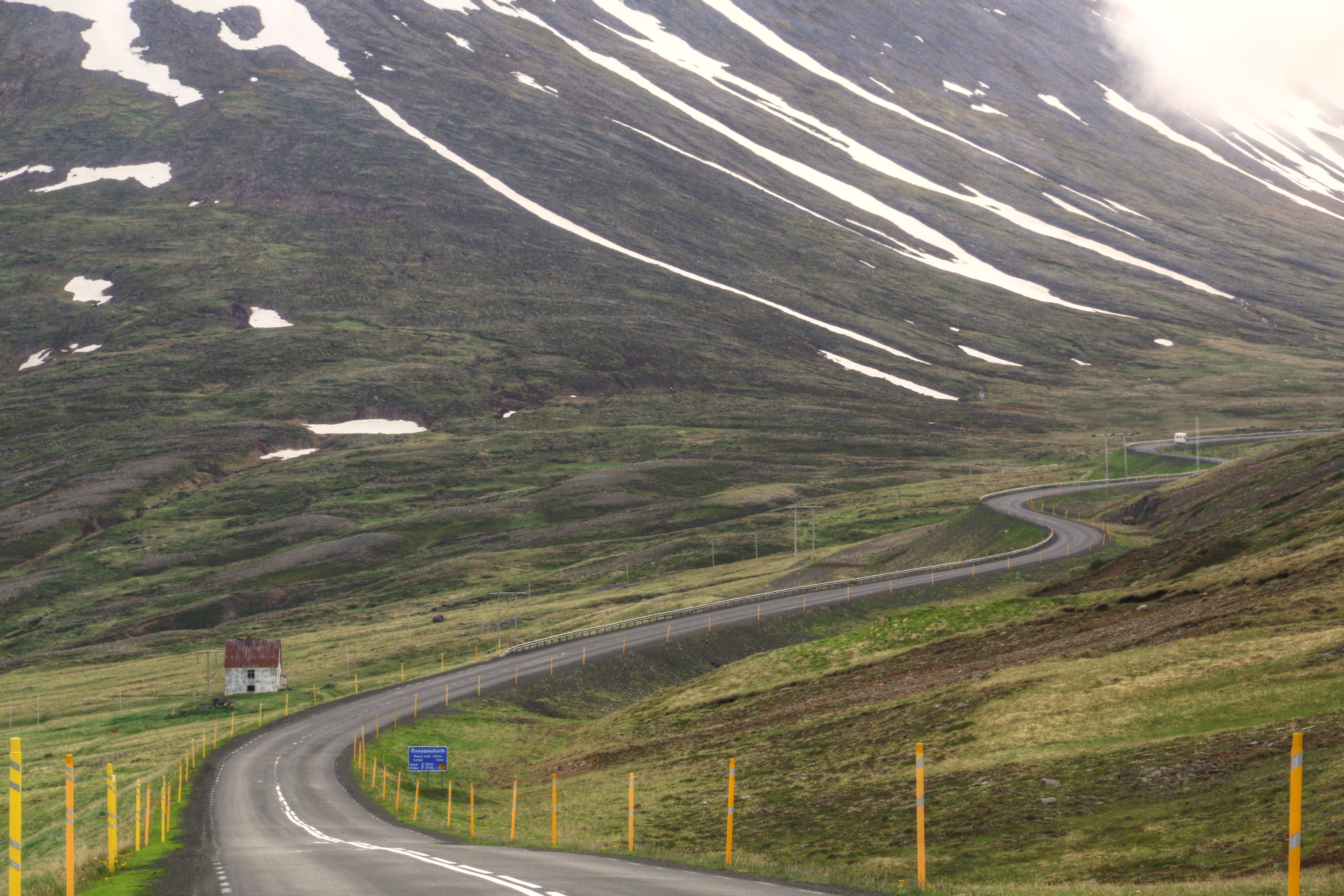 Hringvegur, Route 1 or the Ring Road June 2016